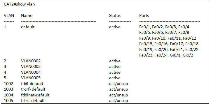 VLAN 2,3,4,5-г үүсгэсэн ба бусад нь default-р тохируулагдсан.